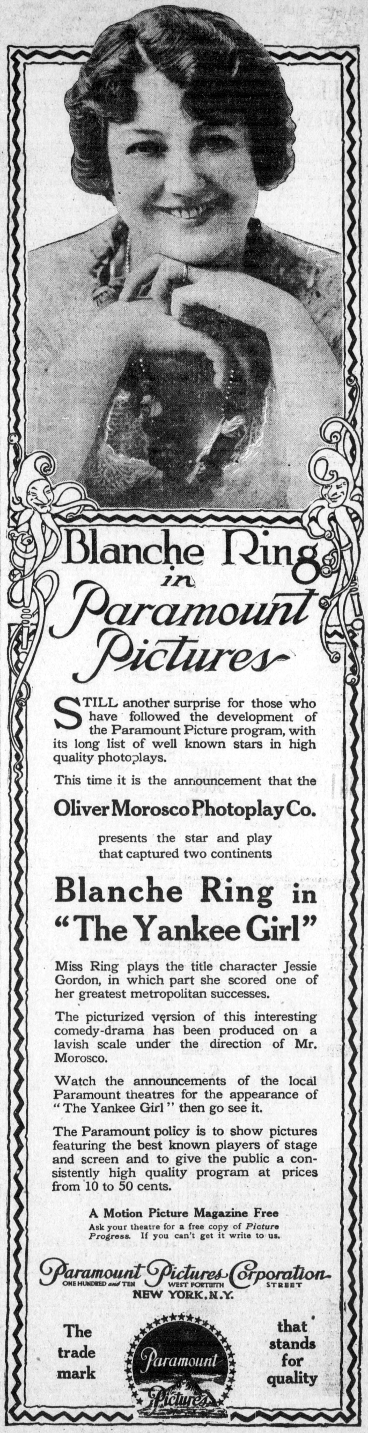 The Yankee Girl is a 1915 silent film comedy produced by Oliver Morosco, distributed by Paramount Pictures and starring Blanche Ring, from the Broadway stage. This is a contemporary newspaper advert for the film.